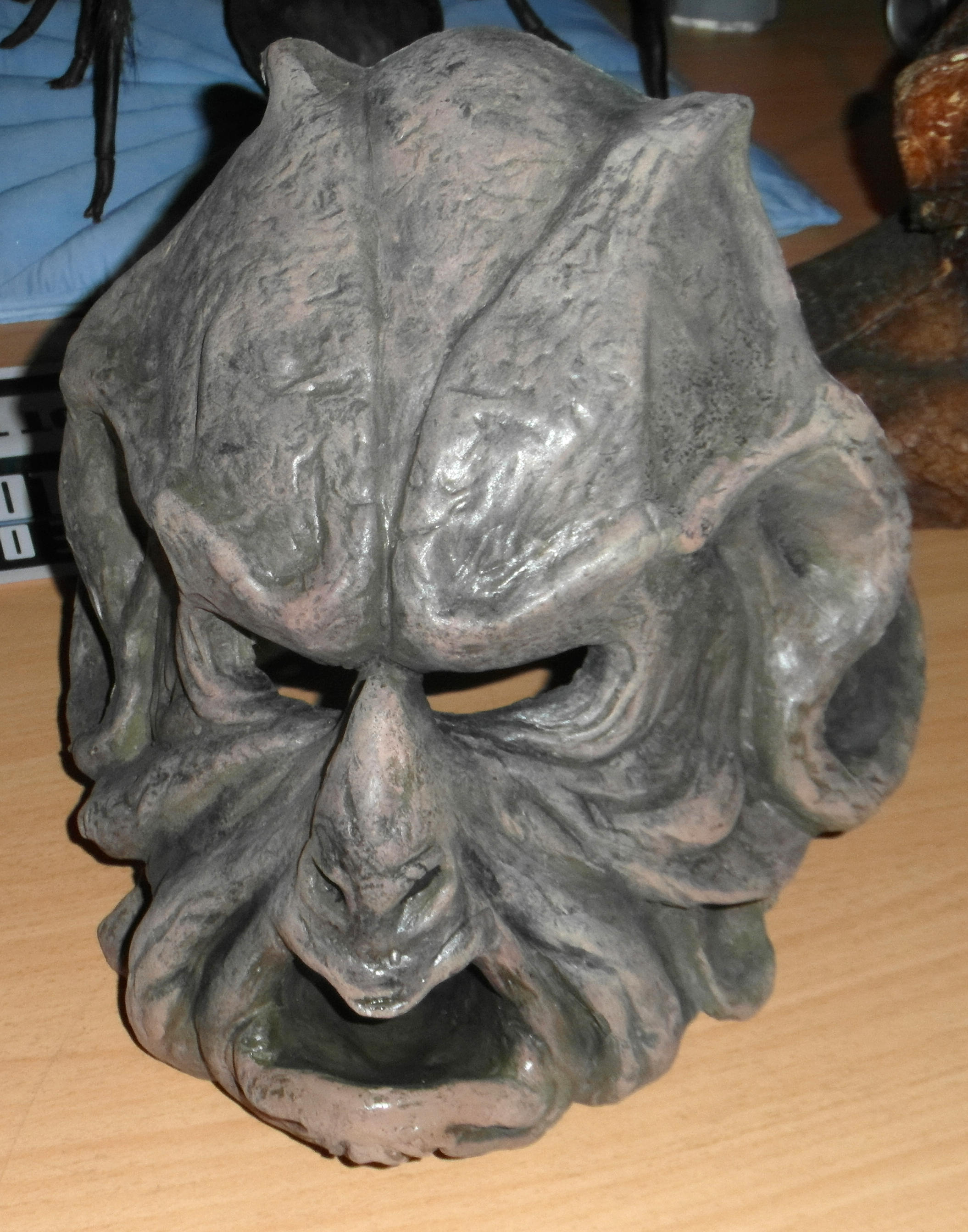 Science of the Time Lords event at the National Space Centre, 16th November 2013. Doctor Who Experience